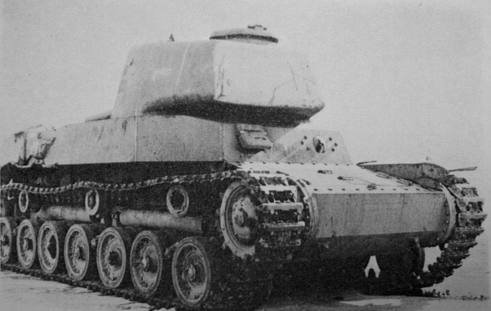 Imperial Japanese Army Type 4 medium tank Chi-To prototypes captured by Americans.